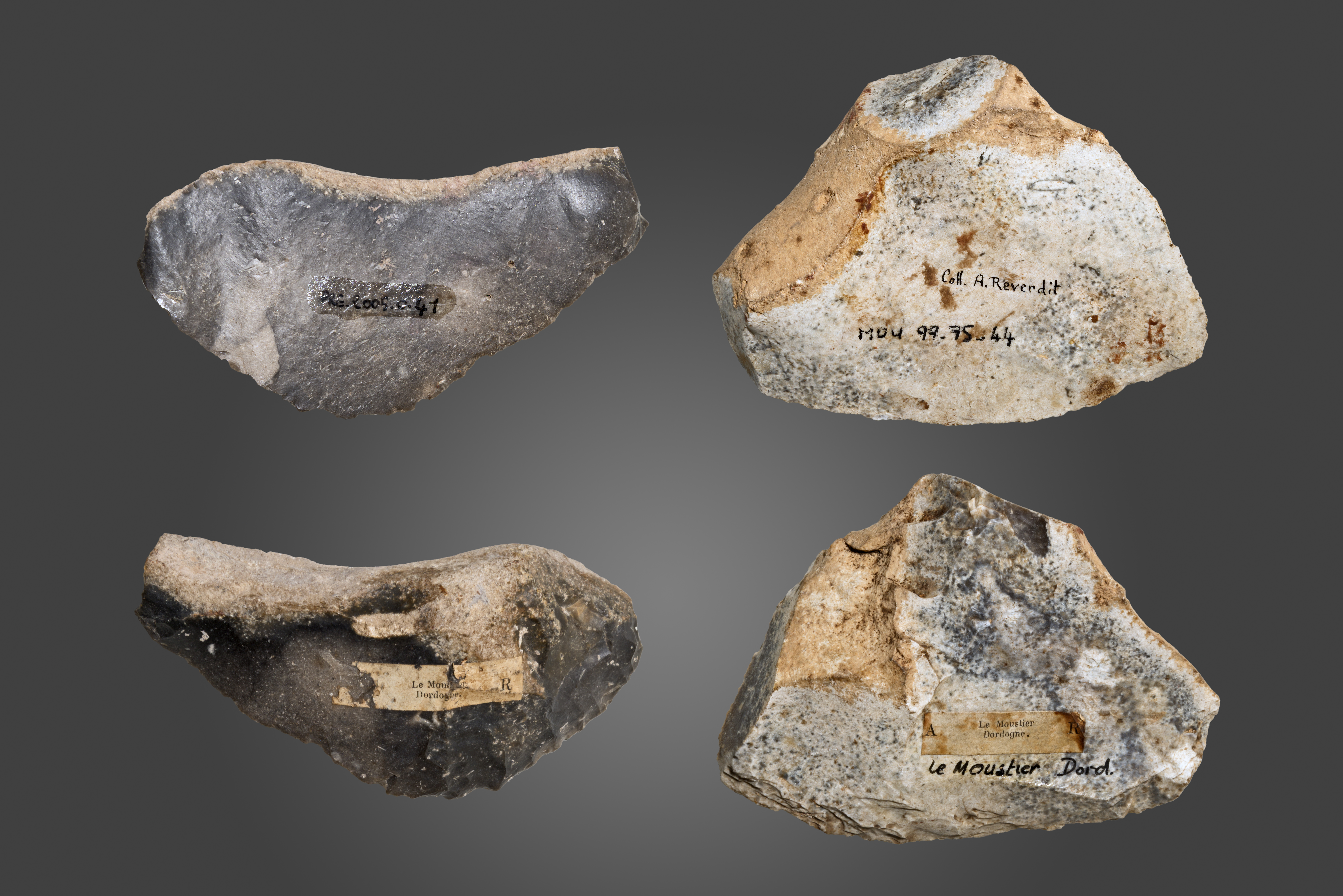 Flint side-scraper. Two views of two tools. Satge: Mousterian (À 30 000 300 000; BP) Locality: Le Moustier – Saint-Léon-sur-Vézère – France Excavation: Excavation and collection: Alain Reverdy